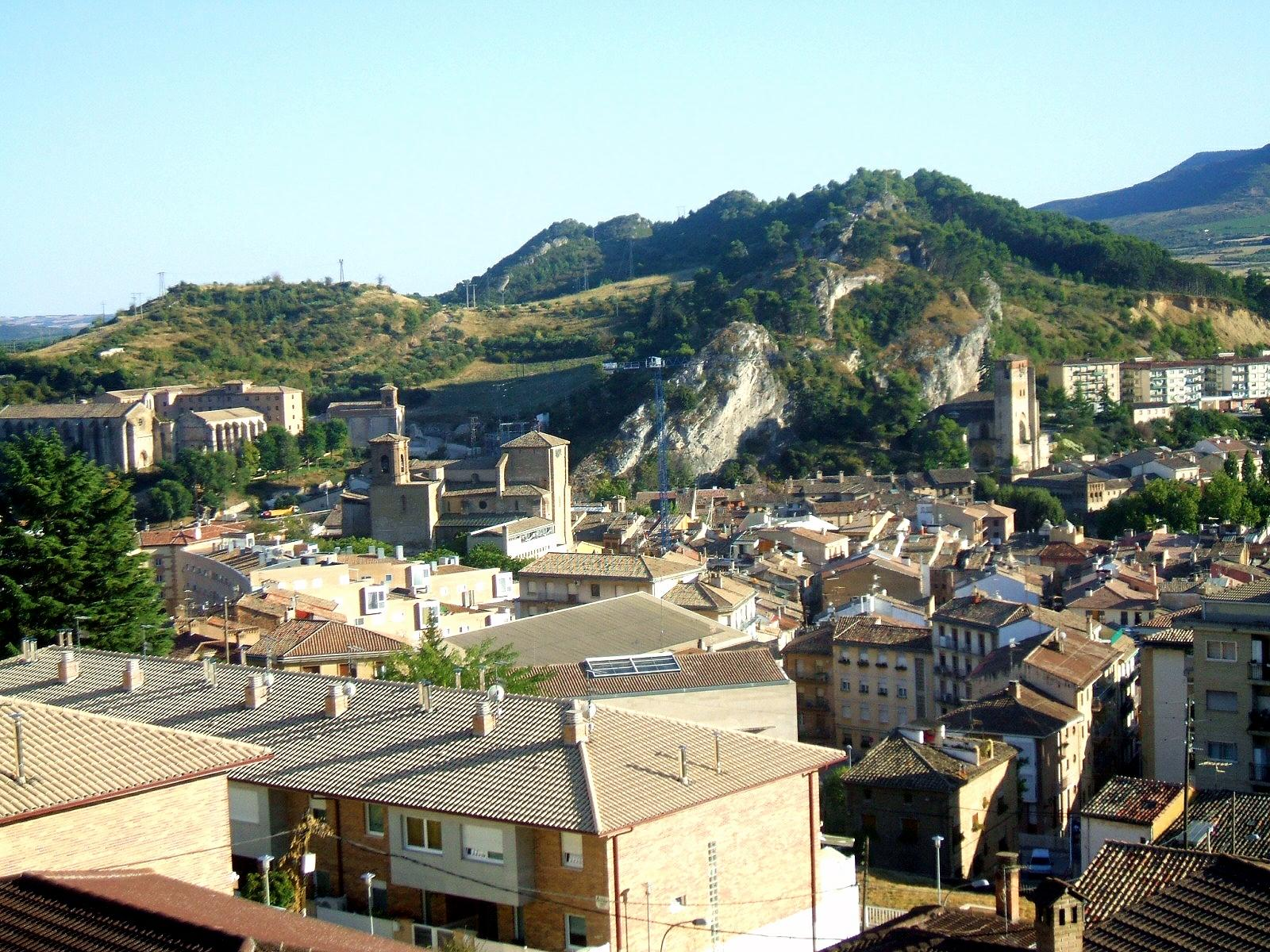 Panorámica de Estella (Navarra, España)